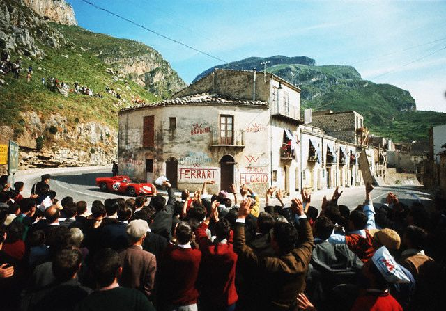 Crowds watch competitors in the Targa Florio race on 9 May 1965, as a red Ferrari races through the Sicilian village of Collesano. This particular car is entry #198, this years WINNER, the the 1965 Ferrari 330 P2 s/n 0828 driven by Nino Vaccarella and Lorenzo Bandini.[1] Photographer:David Lees